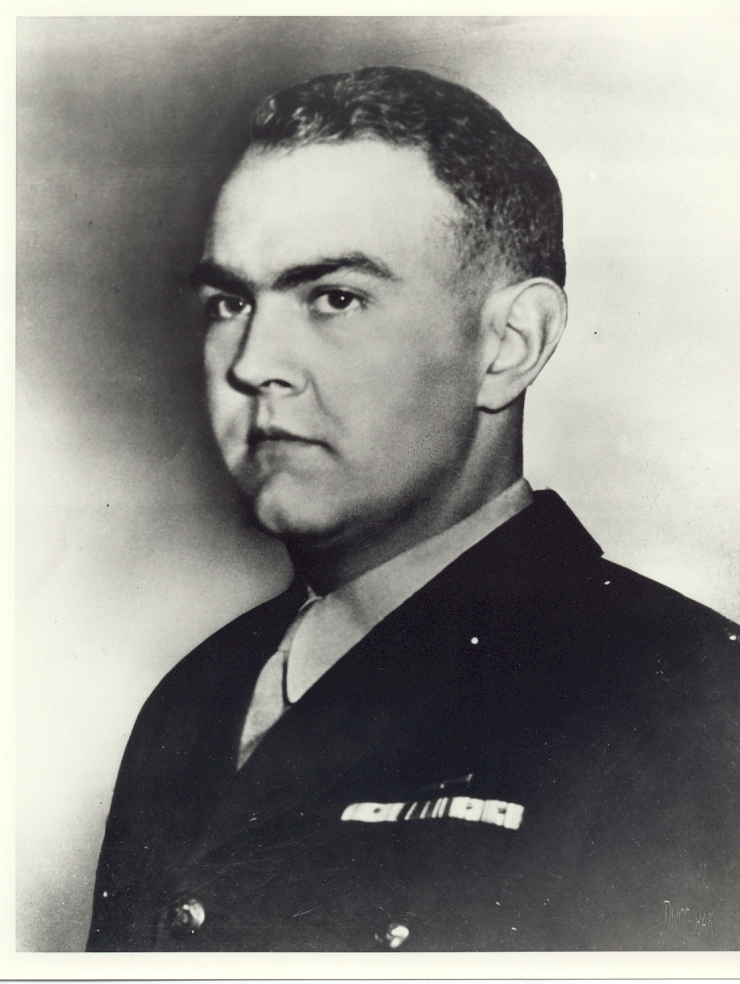 Major Henry Alexuis Courtney, Jr., USMCR, Medal of Honor recipient